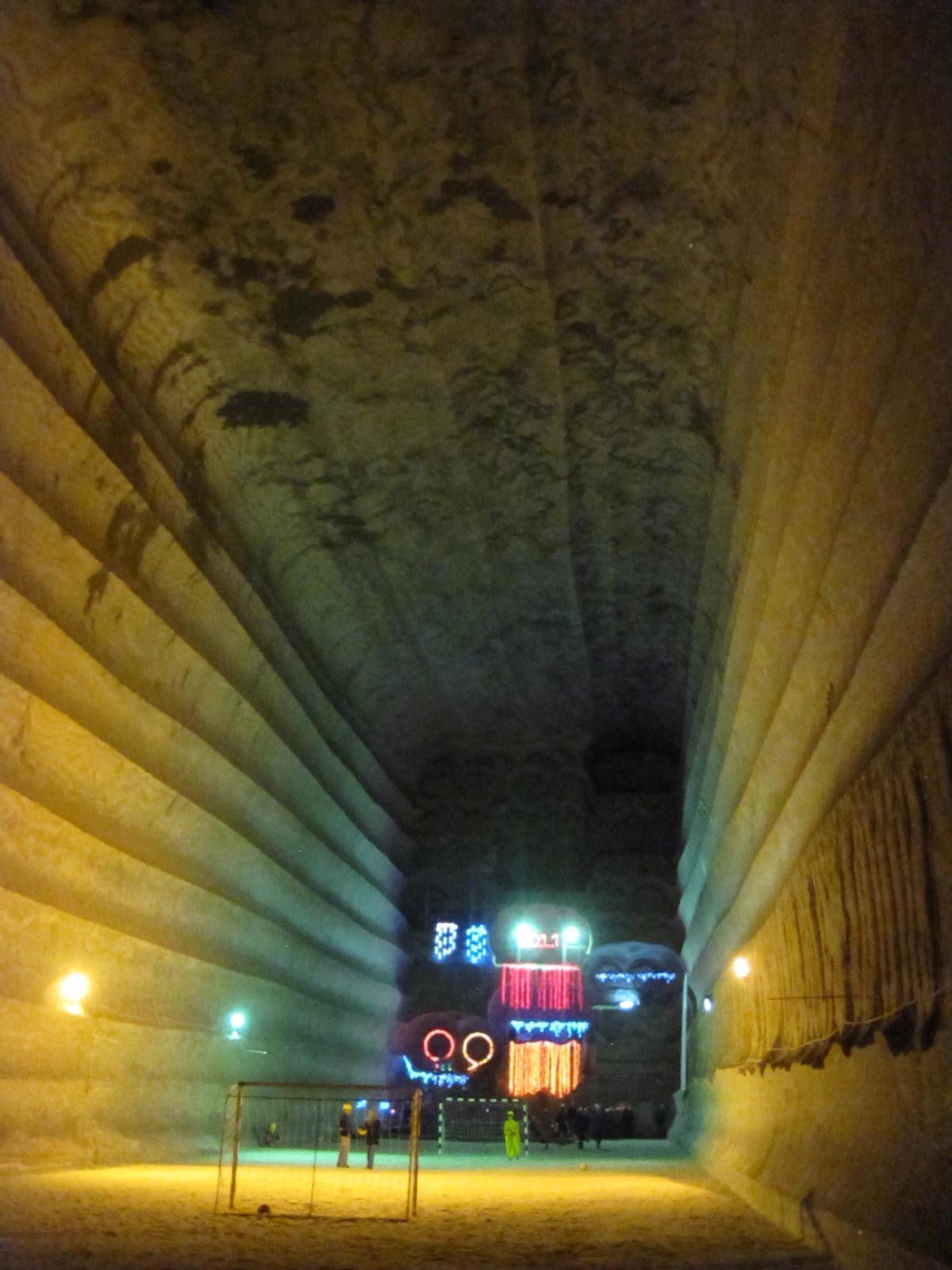 This hall at the end of the tour has a soccer field- all made from salt of course.